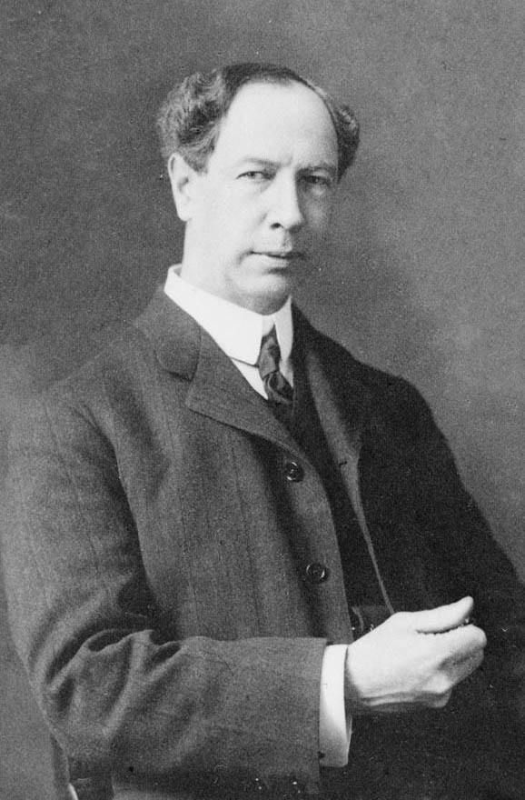 Thomas Leopold "Carbide" Willson (March 14, 1860 – December 20, 1915) at age 54 in Ottawa, Ontario, Canada. Willson was a Canadian inventor.